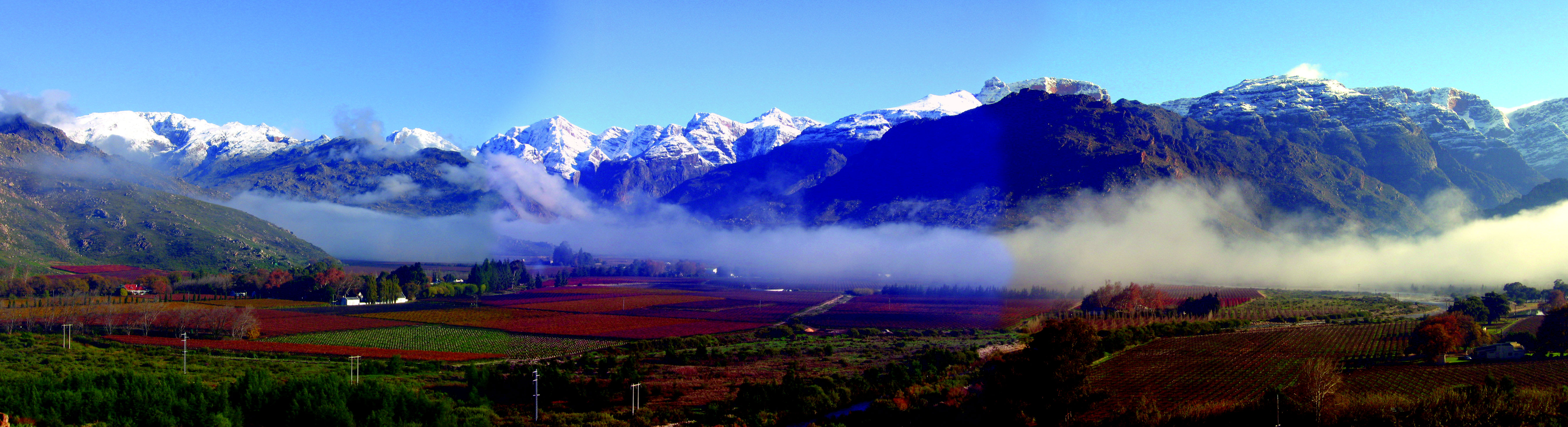 Buffelshoek area of the Hex River Mountains in South Africa.